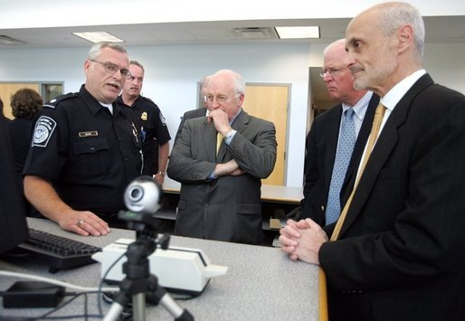 "Vice President Dick Cheney, Senator Saxby Chambliss, and Department of Homeland Security Secretary Michael Chertoff listen as a U.S. Customs and Border Protection agent shows off some of the technology being used to train law enforcement personnel at the Federal Law Enforcement Training Center in Glynco, Georgia, May 2, 2005. The Vice President toured the facility, which provides training to more than 80 federal agencies, in addition to state and local police. The facility is the largest law enforcement training establishment in the country and graduates over 50,000 students annually."